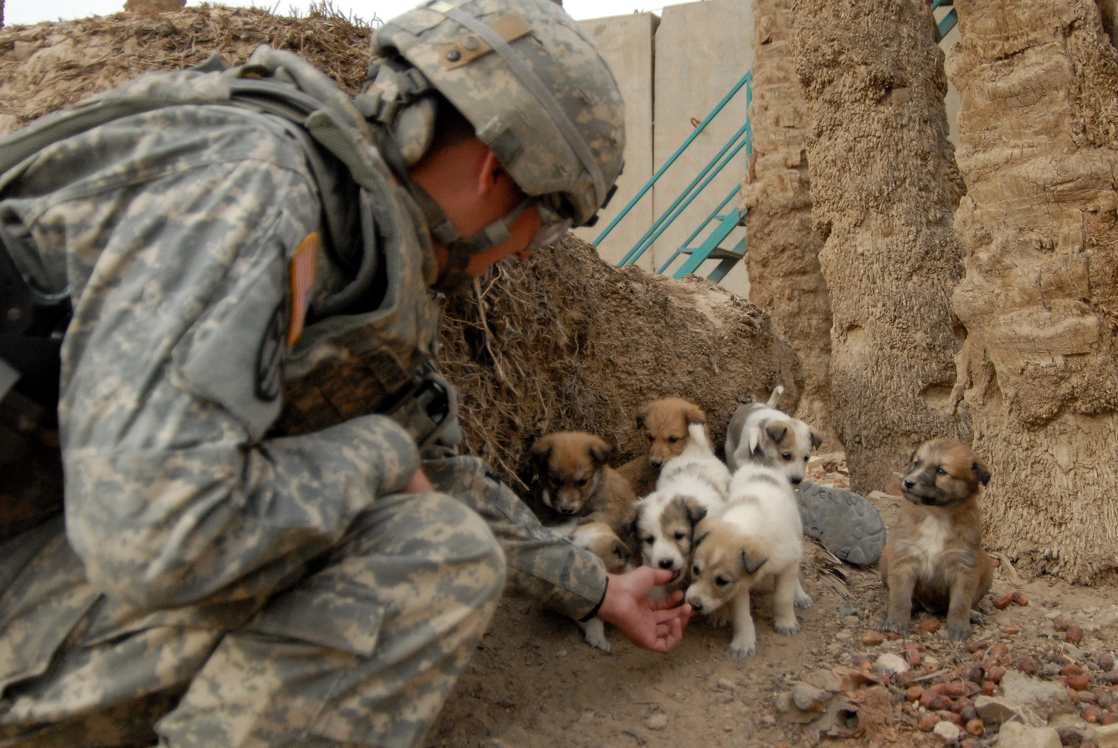 U.S. Army Spc. David Cartwright from Martinsburg, W. Va., of the 1st Platoon, 230th Military Police Company, 793rd Military Police Battalion, 18th Military Police Brigade, improves community relations by engaging with local Iraqi puppies at the Iraqi Police District Headquarters in Mahawil, Iraq, on Dec. 21.